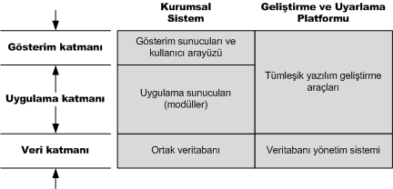 Enterprise system architecture displaying components that make up an enterprise system